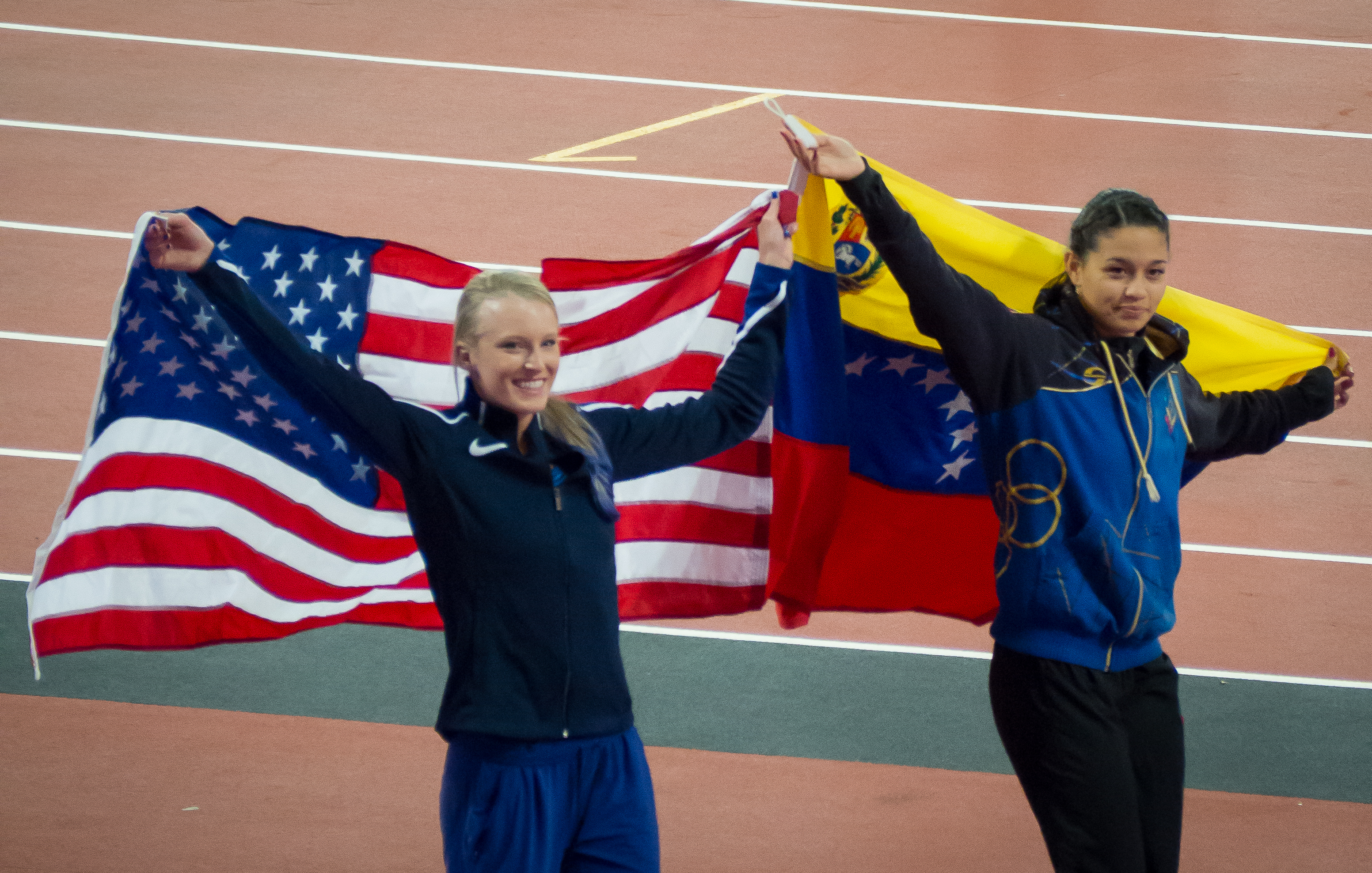 Pole vaulters Sandi Morris and Robeilys Peinado, silver and bronze medal winners at the 2017 World Championships in Athletics